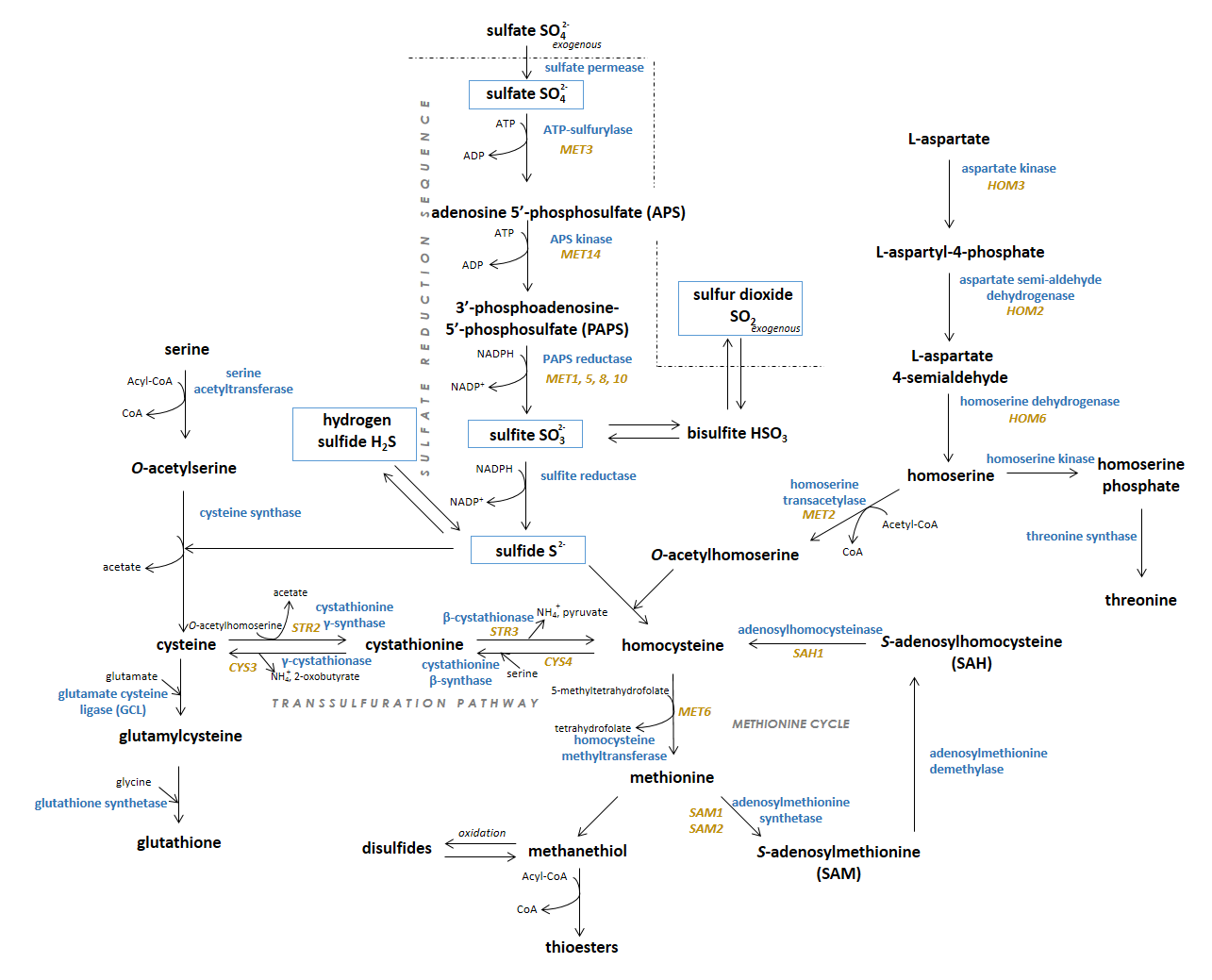 Sulfur metabolism in Saccharomyces cerevisiae